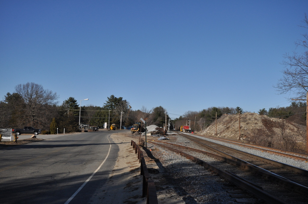 Southern junction point of the triangular Lowell Junction interchange, Andover, Massachusetts.